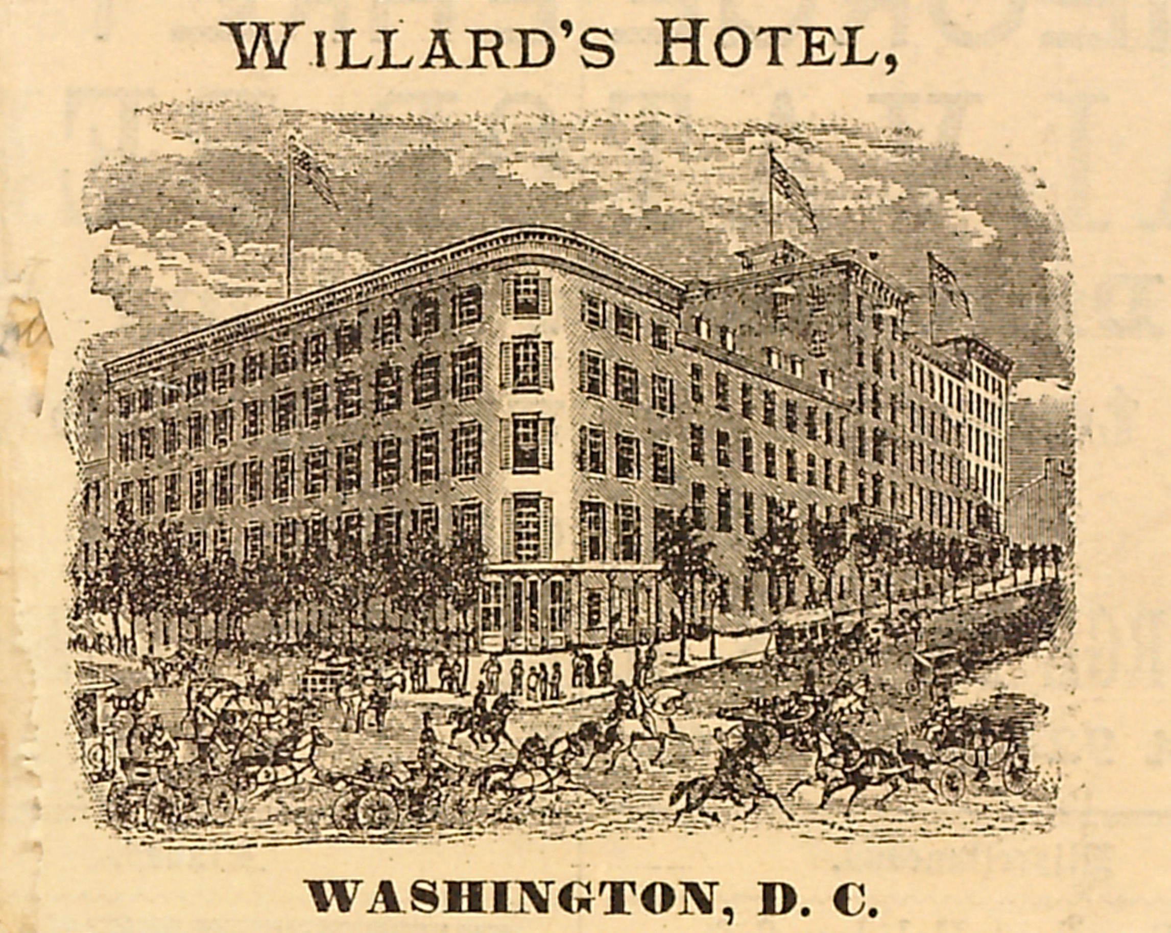 Newspaper engraving of Willard's Hotel in Washington, D.C.Title: Thomas Butler Gunn Diaries: Volume 19, page 26, March 9, 1862 [newspaper clipping]